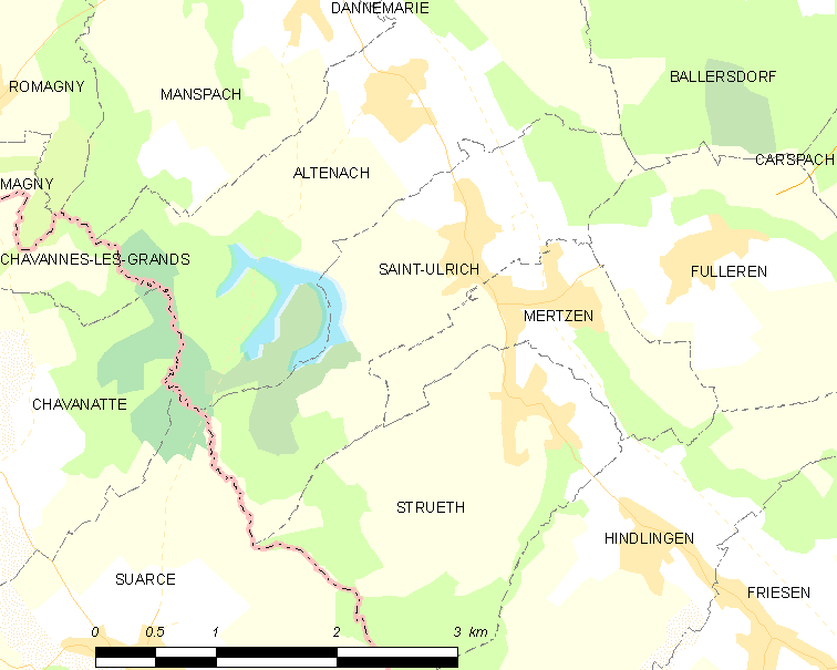 Map of French municipality